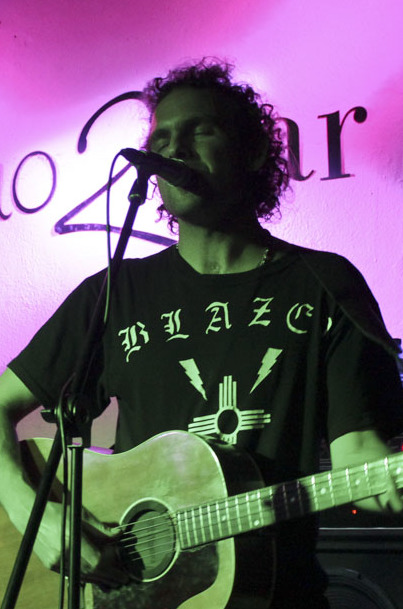 Damon McMahon performing with Amen Dunes performing at Almo2bar in Barcelona, Spain, September 2014